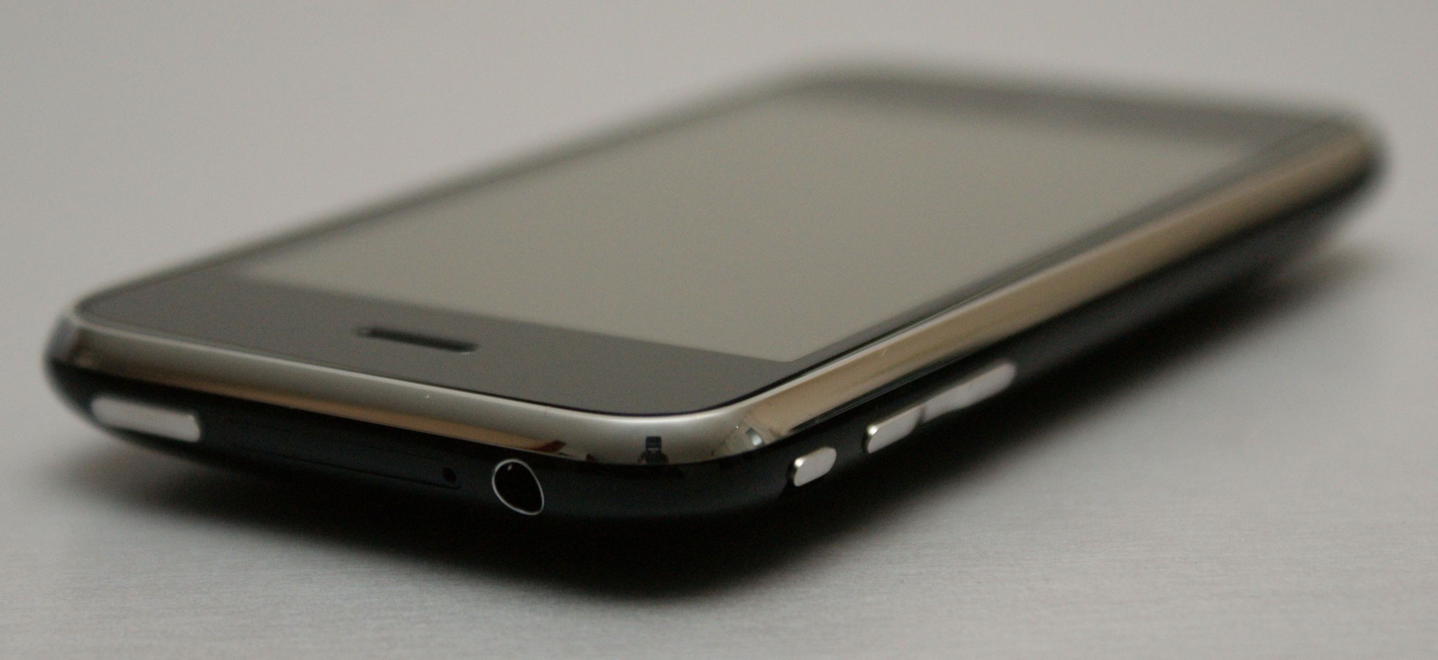 the top and sides of an iPhone 3G S.